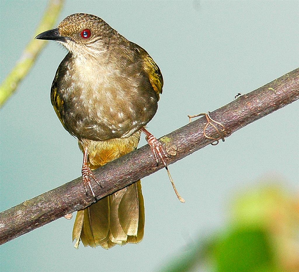 Olive-winged Bulbul (Pycnonotus plumosus)